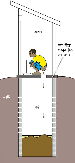 Schematic of a simple pit latrine